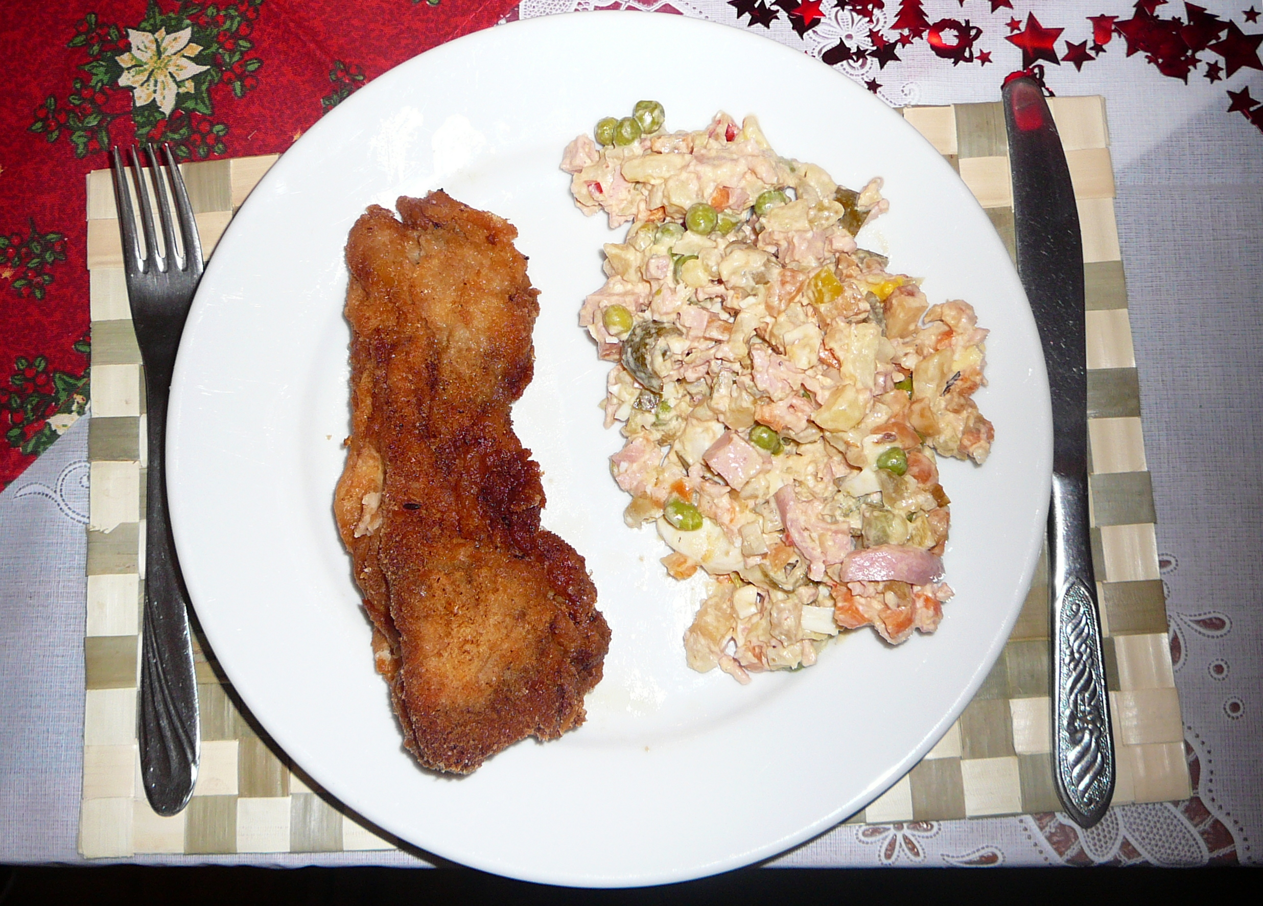 Christmas carp with potato salad